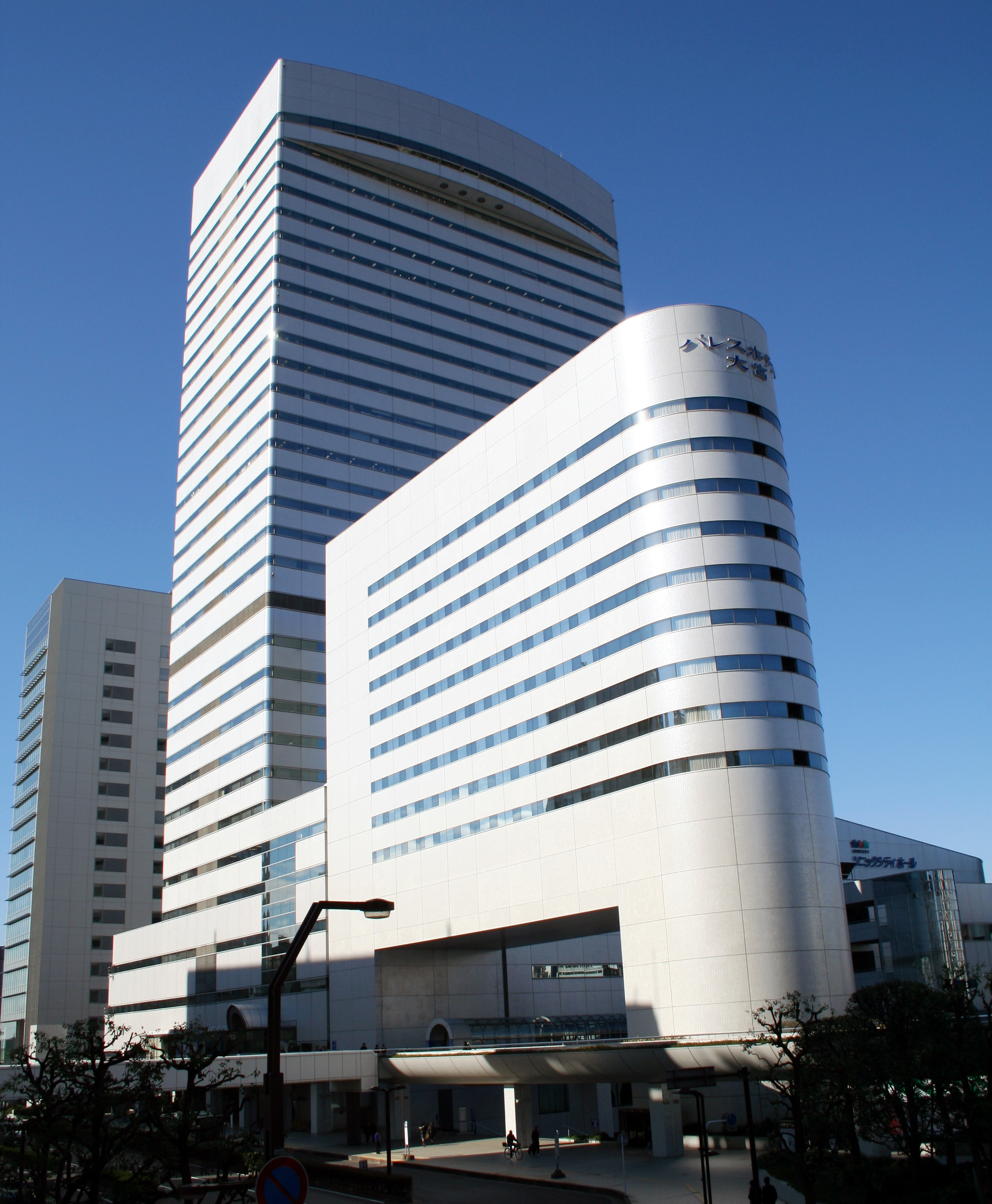 Japanese Omiya Sonic City in Saitama prefecture.